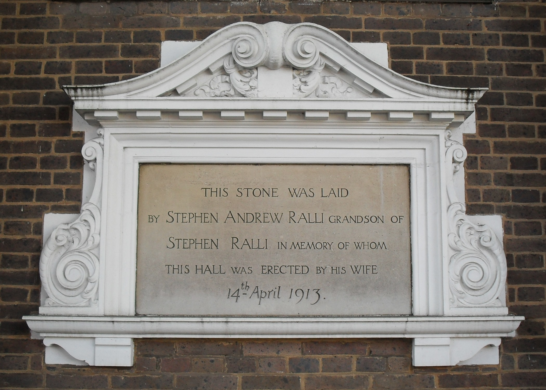 Ralli Hall, 81 Denmark Villas, Hove, City of Brighton and Hove, England. Built as the church hall of All Saints Church in 1913; now a multipurpose community facility owned by the Brighton & Hove Jewish Community group. Listed at Grade II by English Heritage (NHLE Code 1298671). This shows the foundation plaque, dated 14 April 1913.